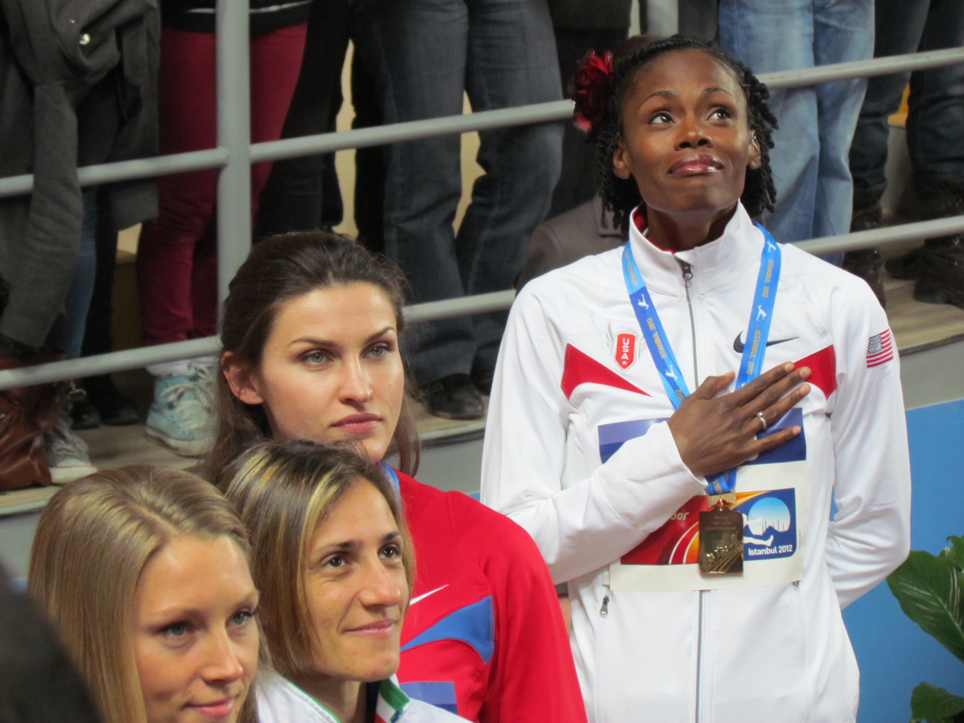 The 2012 IAAF World Indoor Championships in Athletics was the 14th edition of the global-level indoor track and field competition and was held between March 9–11, 2012 at the Ataköy Athletics Arena in Istanbul, Turkey. Ebba Jungmark, Antonietta Di Martino, Anna Chicherova, Chaunté Lowe